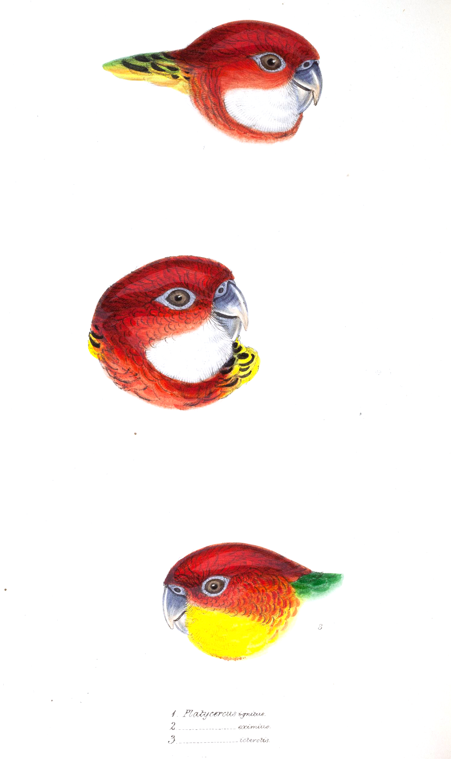 Head details in three examples of genus Platycercus, the rosellas